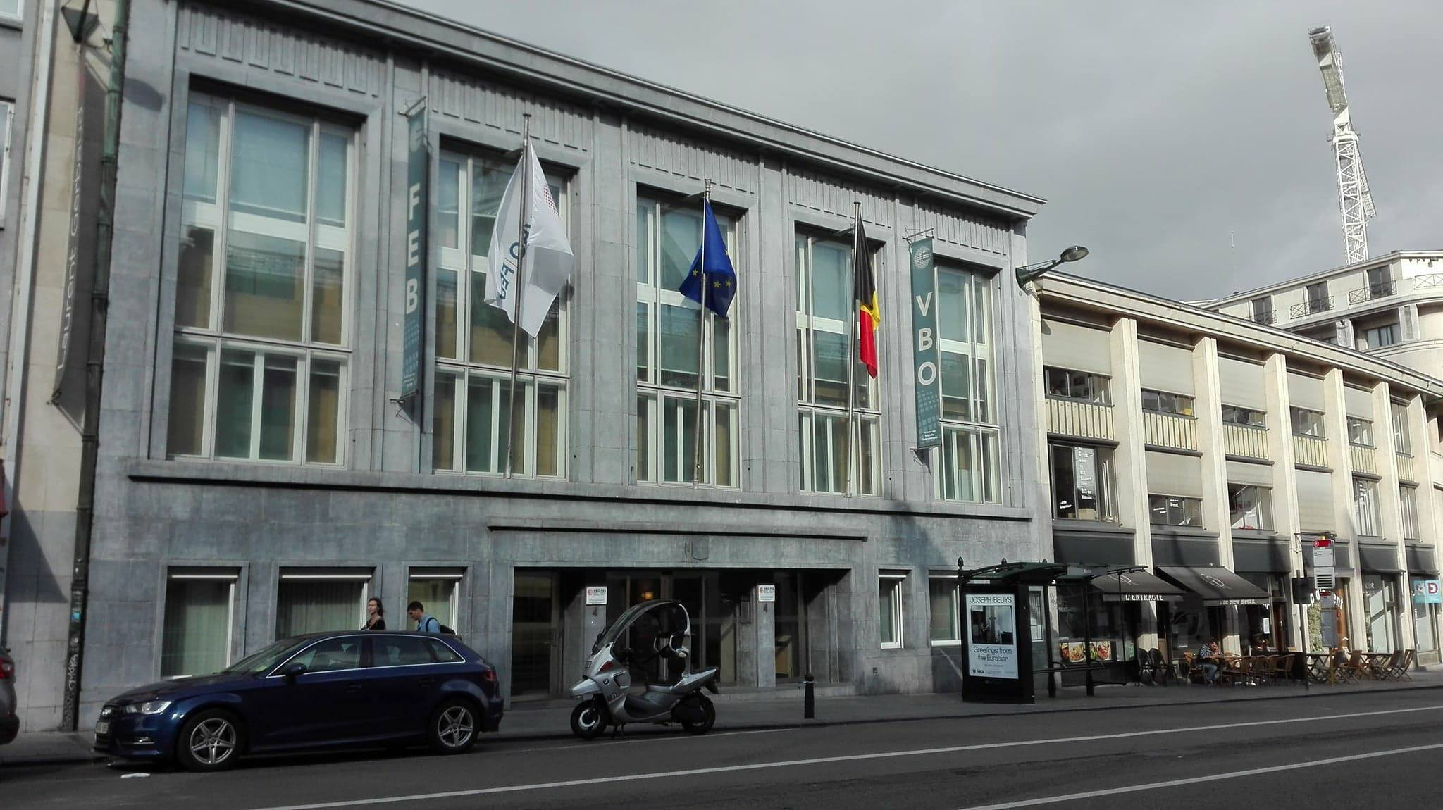 Cette image représente le siège de la FEB, elle se trouve localisé à Bruxelles